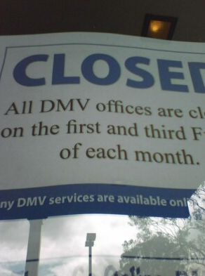 Example of state employee furloughs in 2009 because of state budget problems.